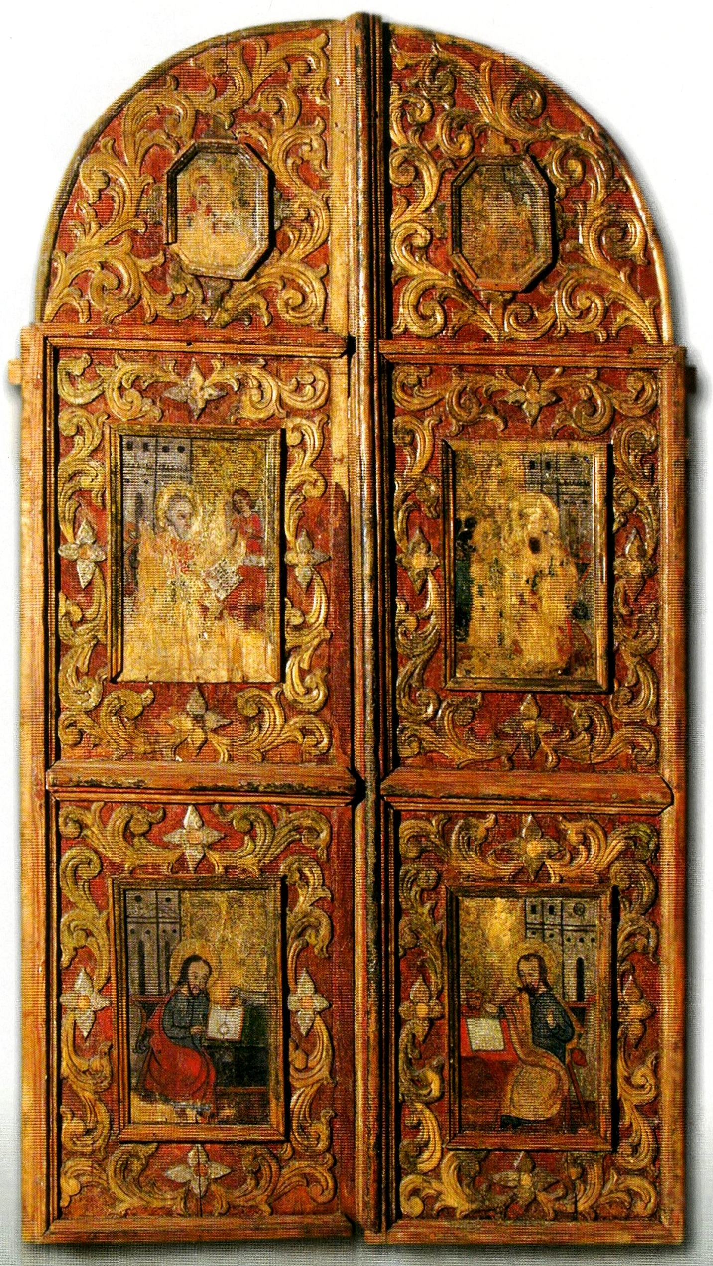 THE HOLY GATES. 2nd half of the 17th c. Wood, carving, painting. Almany villageChurch, Stolin district, Brest region.